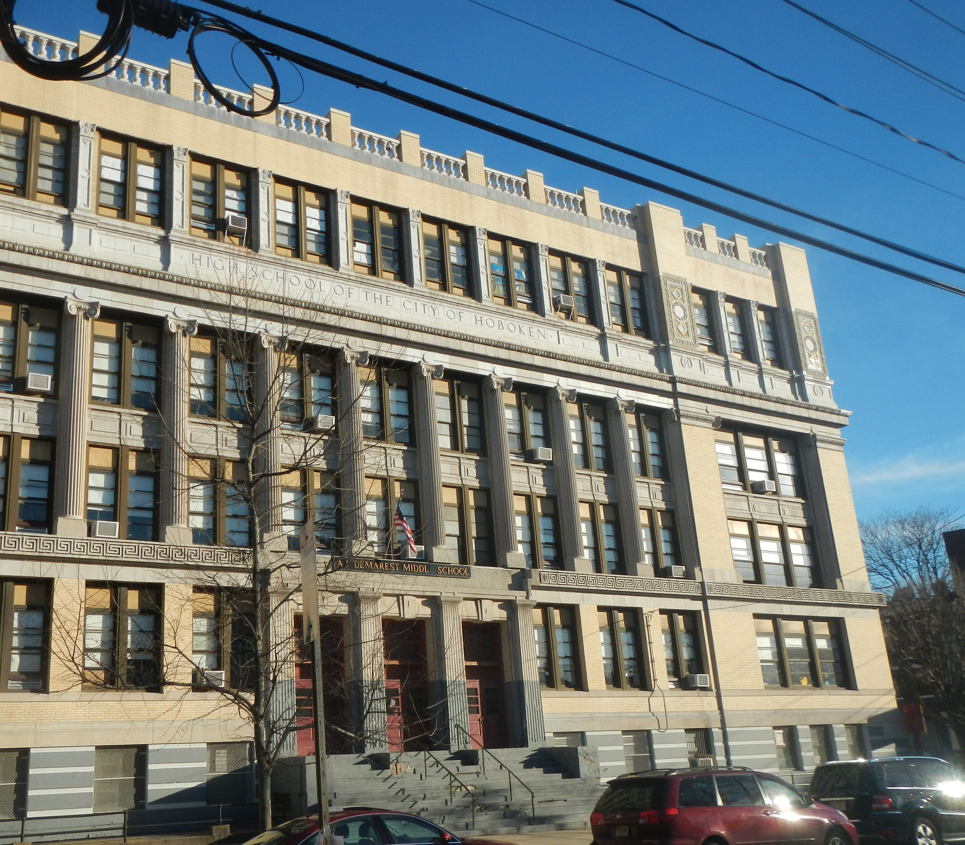 Looking east at school on a sunny afternoon.